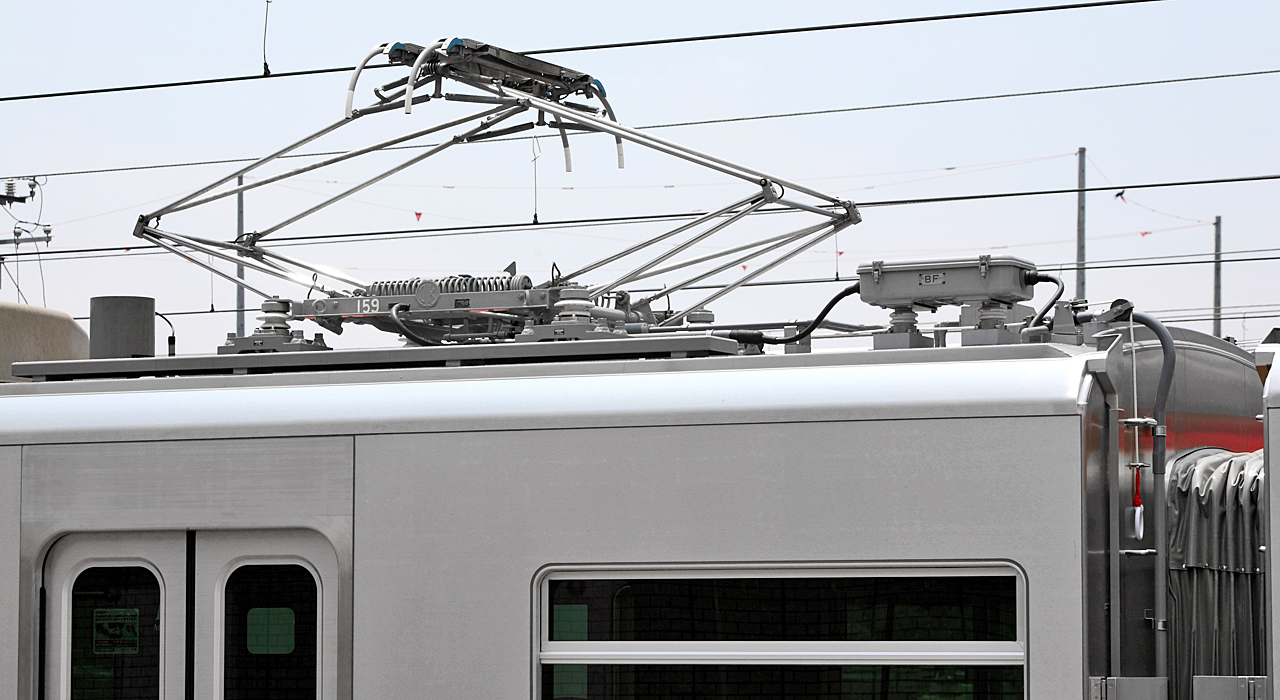 Pantograph of Meitetsu 5000 series ( II ) EMU ( Mo 5155 )